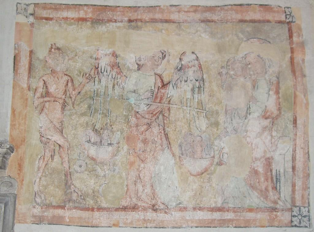 Secco mural of archangel Michael in the Michaelerkirche in Vienna